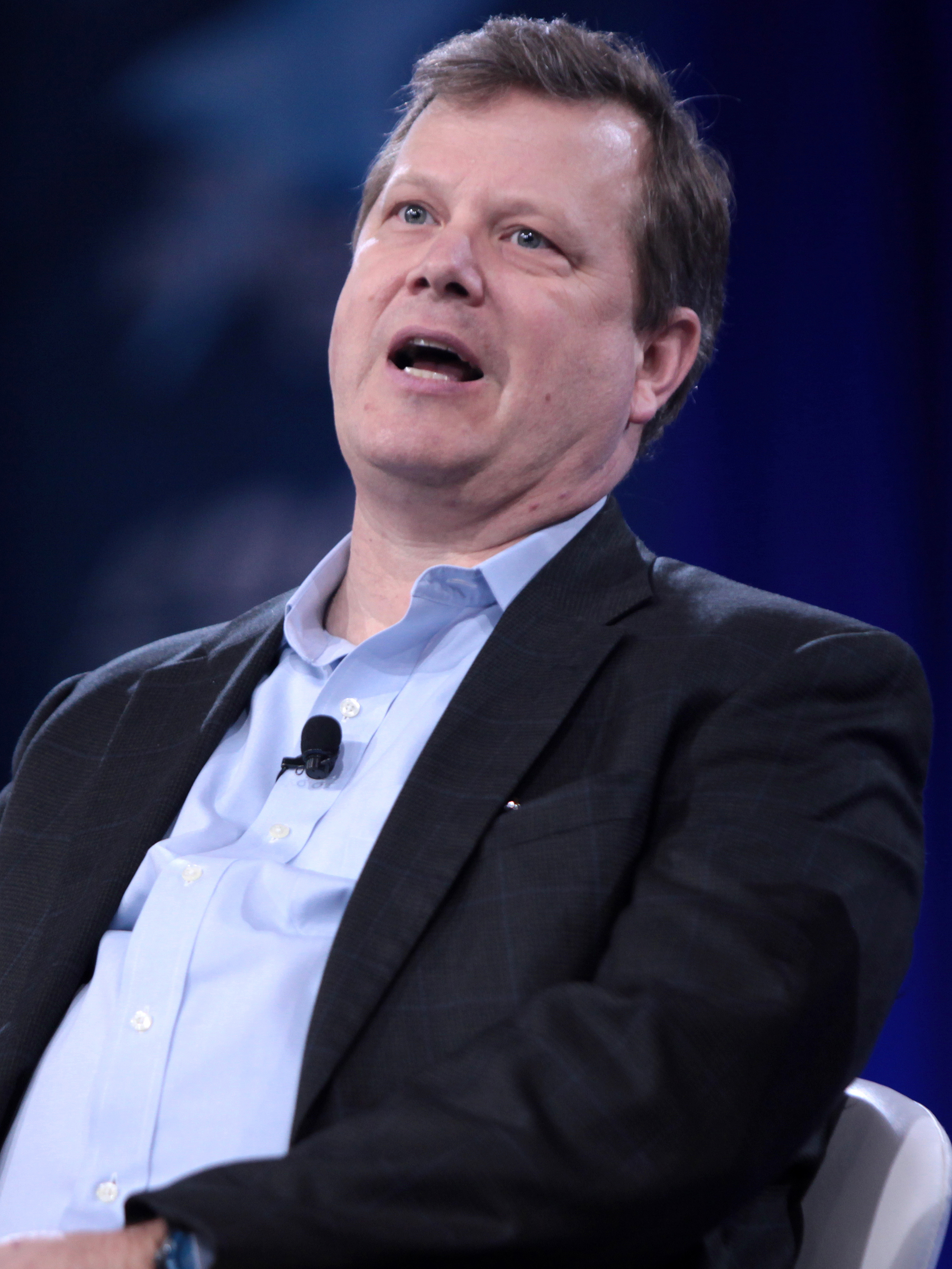 Peter Schweizer speaking at CPAC 2016 in National Harbor, Maryland.